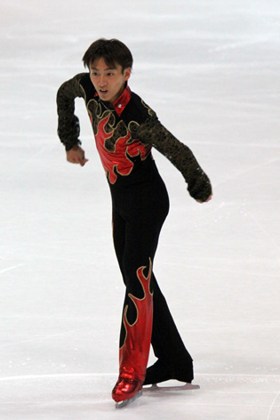 Akio Sasaki at the 2009 Nebelhorn Trophy.